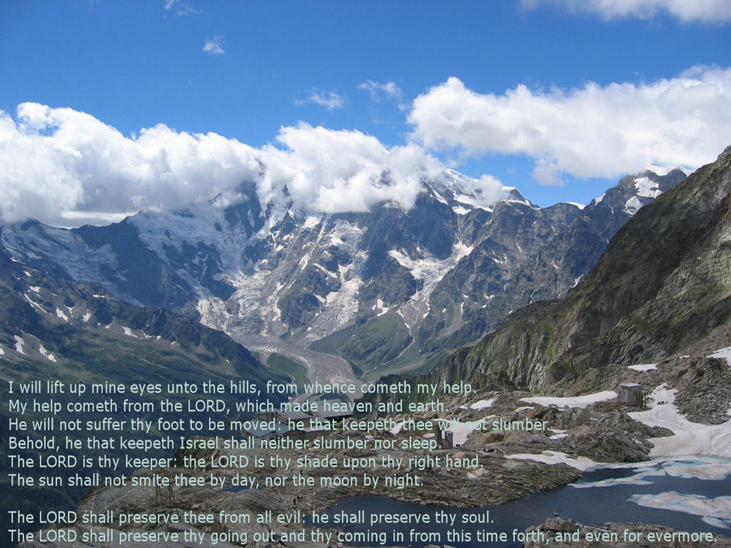 Computer wallpaper - Psalm 121